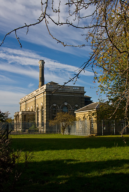 Cricklewood Pumping Station Located between St. Michael's Road and the Dudding Hill Loop railway line connecting Cricklewood with Acton, opposite St.Michael's Church.